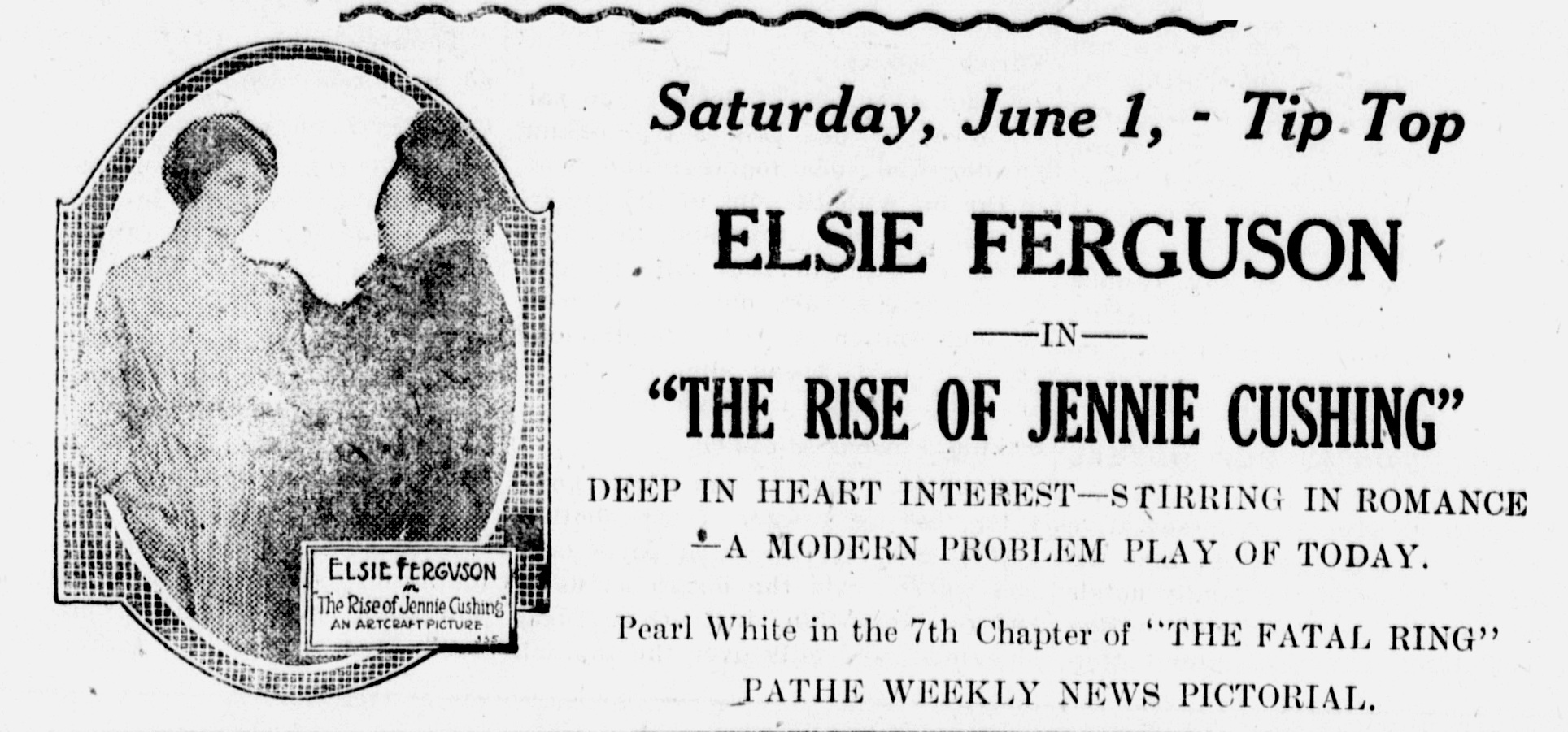 The Rise of Jennie Cushing is a 1917 silent film directed by Maurice Tourneur, produced by Famous Players-Lasky and distributed by Artcraft Pictures, an affiliate of Paramount Pictures. This is a faded newspaper advert for the film.